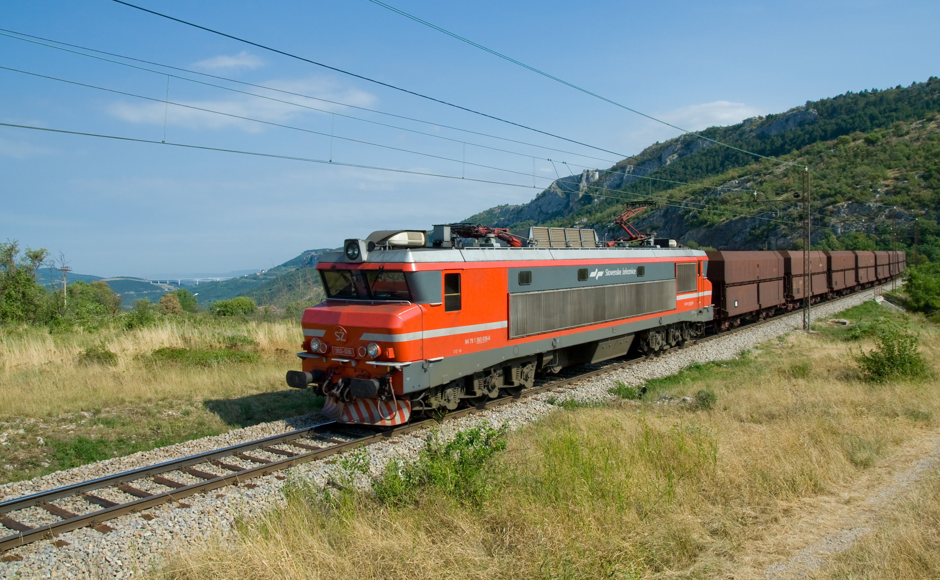 Slovenske železnice class 363, similar to SNCF CC 6500 "nez cassé" ("broken nose"), but for 3 kV DC instead of 1.5 kV, with a freight train on the grade from Prešnica down to Koper, between the stations of Črnotiče and Hrastovlje.